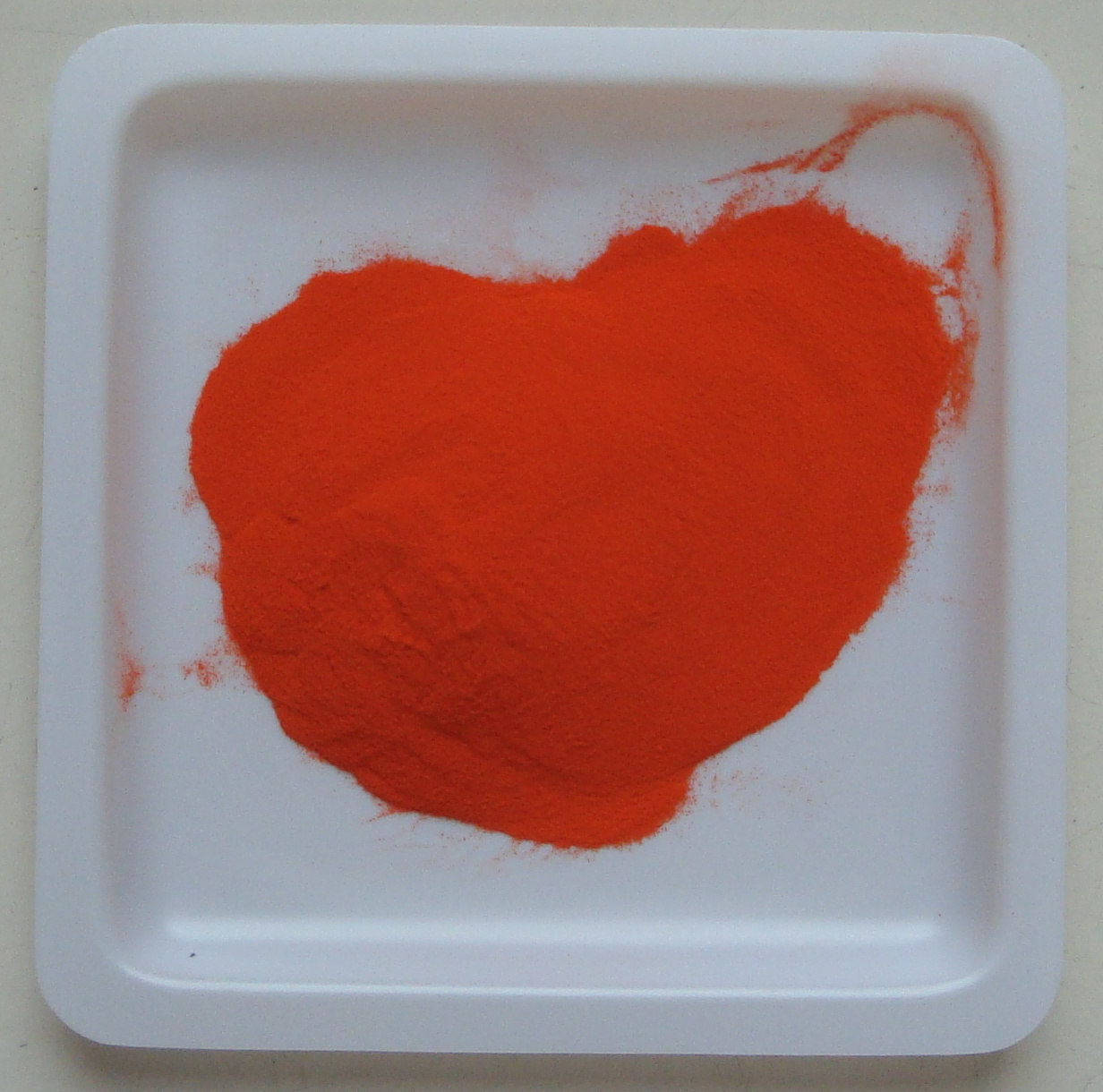 Powder coating material after paint production